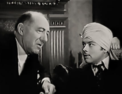 Lumsden Hare (left) and Turhan Bey in Shadows on the Stairs (1941) - cropped screenshot